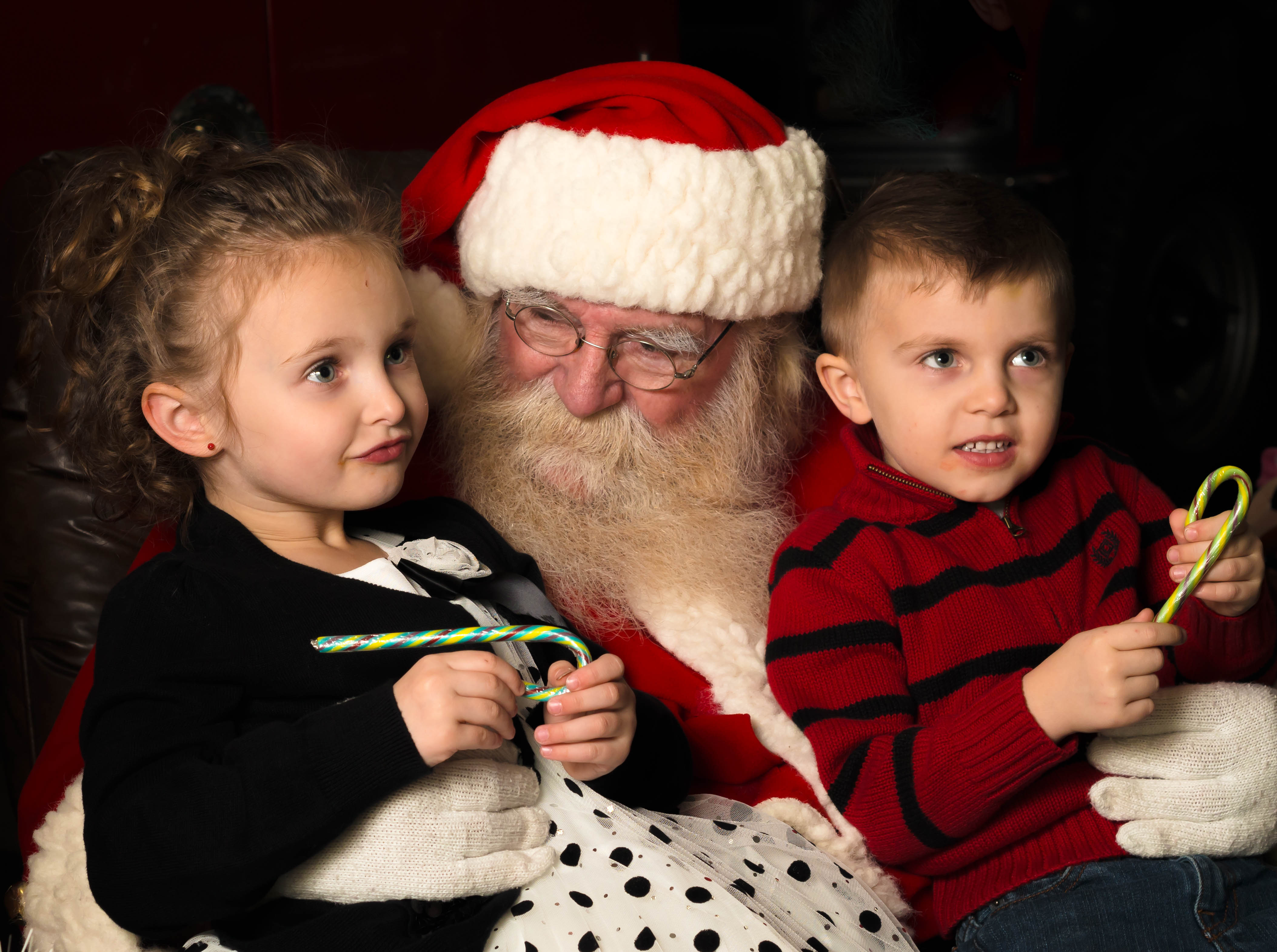 Santa Claus with children